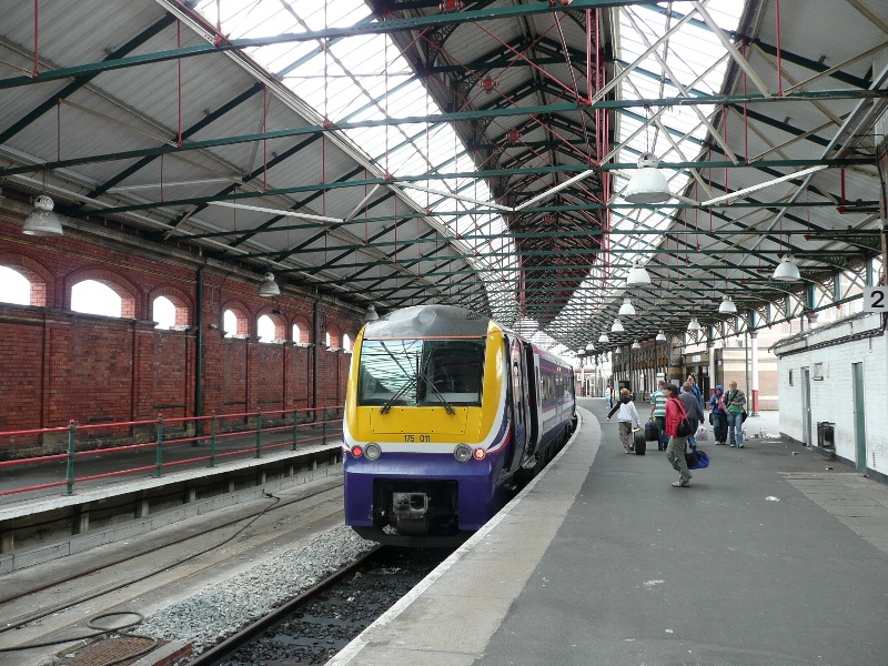 Arriva Trains Wales Coradia DMU 175011 (still in First group "Barbie" livery from its time at First North Western) forms a service at Holyhead station.